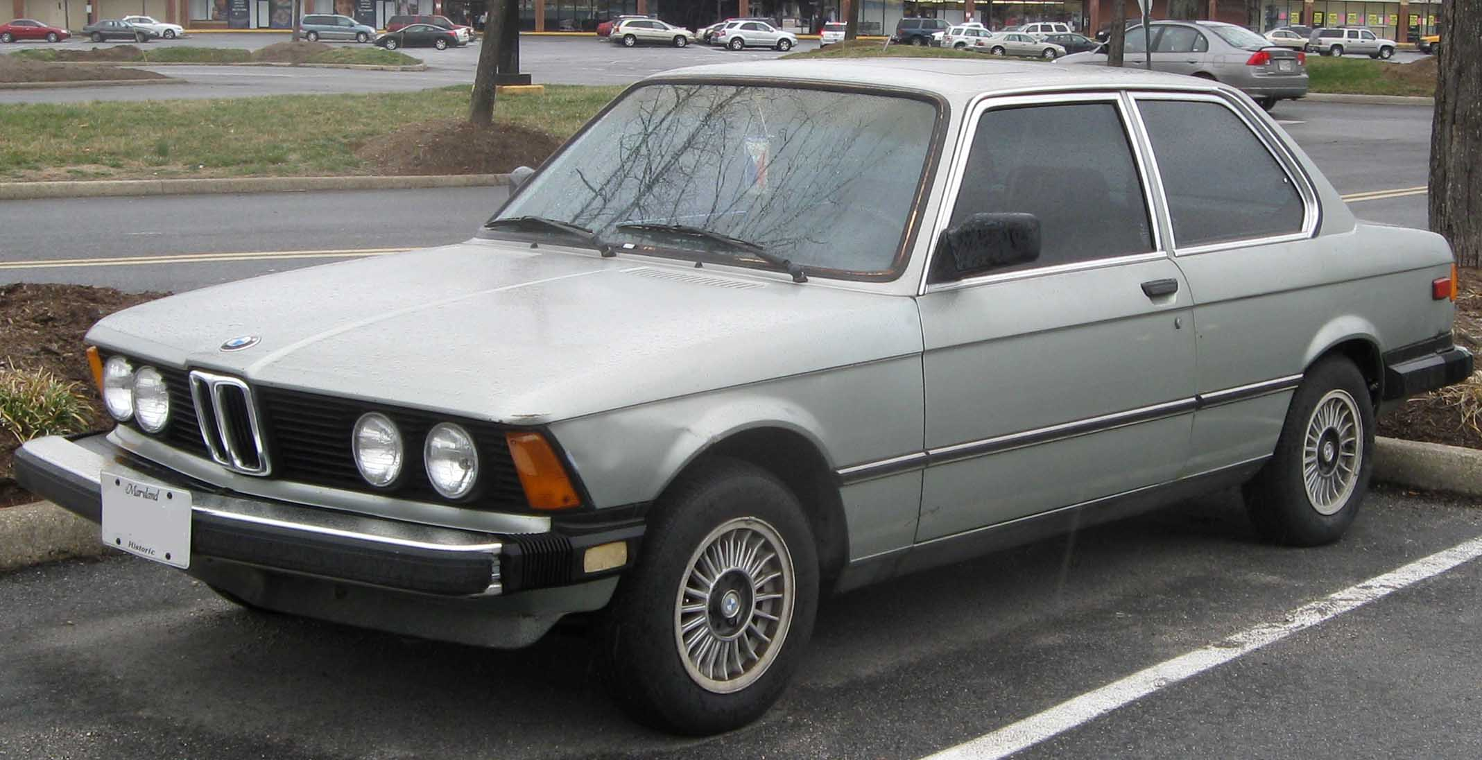 1981-1983 BMW 320i photographed in Waldorf, Maryland, USA.